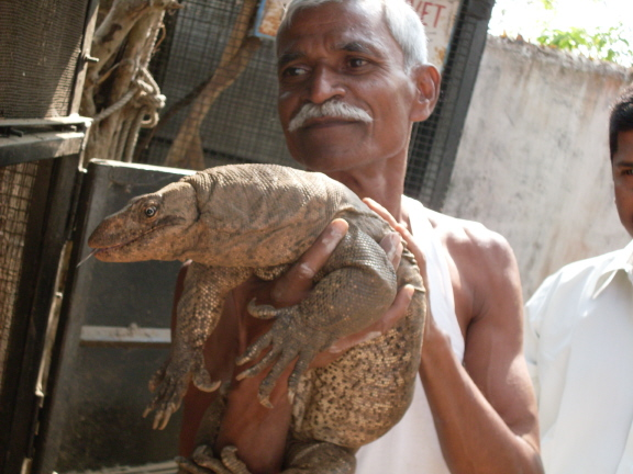 Dada Panchal nursing a Bengal monitor (Varanus bengalensis).